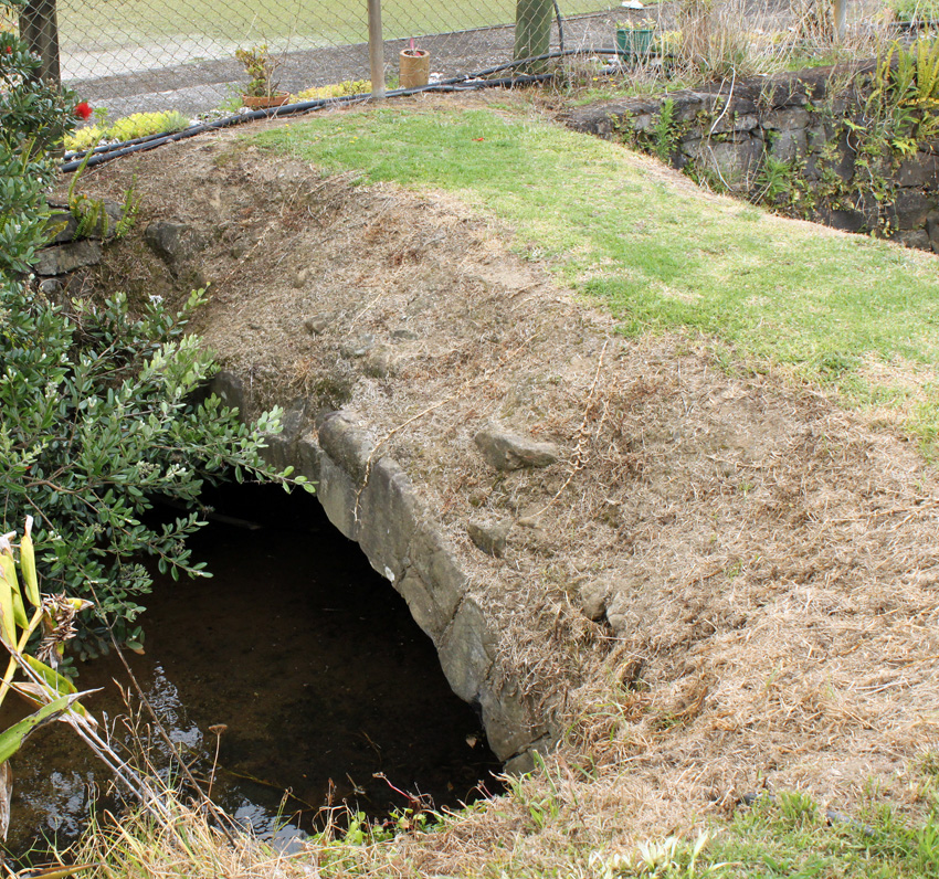 The Kohukohu footbridge, oldest existing bridge in New Zealand which was built in the 1840s. Constructed of Sydney sandstone, it was the first stone bridge erected in the country.